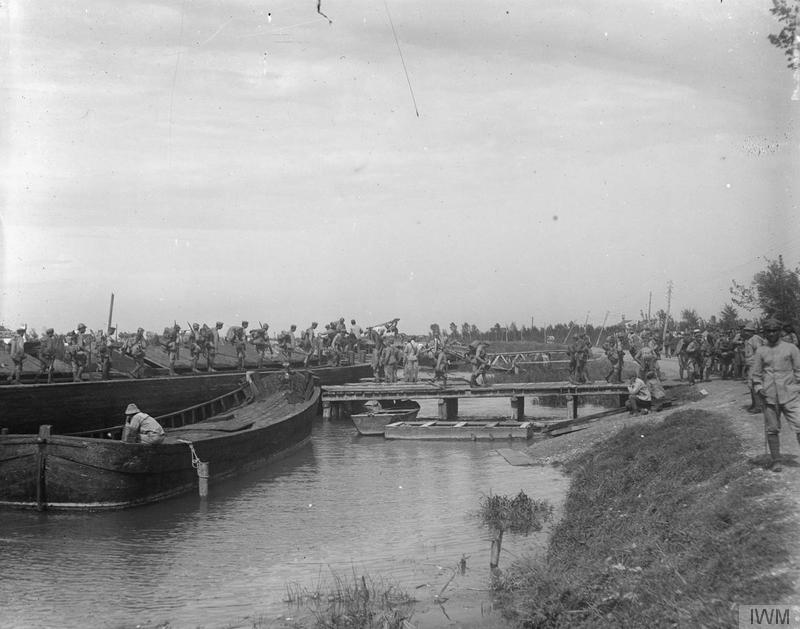 The Battle of the Piave River, June 1918 Italian Marines landing from barges to take up positions on the Piave Front.